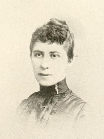 Photographic portrait of American writer Julia K. Wetherill Baker (1858-1931). She is incorrectly listed as "Julie " Wetherill Baker. From American Women: Fifteen Hundred Biographies with Over 1,400 Portraits, Frances E. Willard and Mary A. Livermore, editors. Mast, Crowell & Kirkpatrick, 1897 (revised edition from 1893), vol. 1, p. 46.